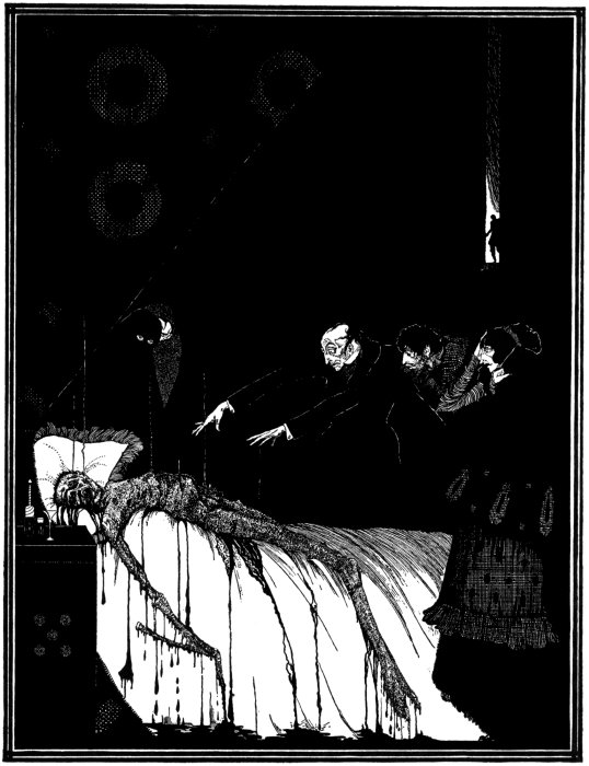 Illustration for Edgar Allan Poe's "The Facts in the Case of M. Valdemar" by Harry Clarke (1889-1931). Published in 1919.